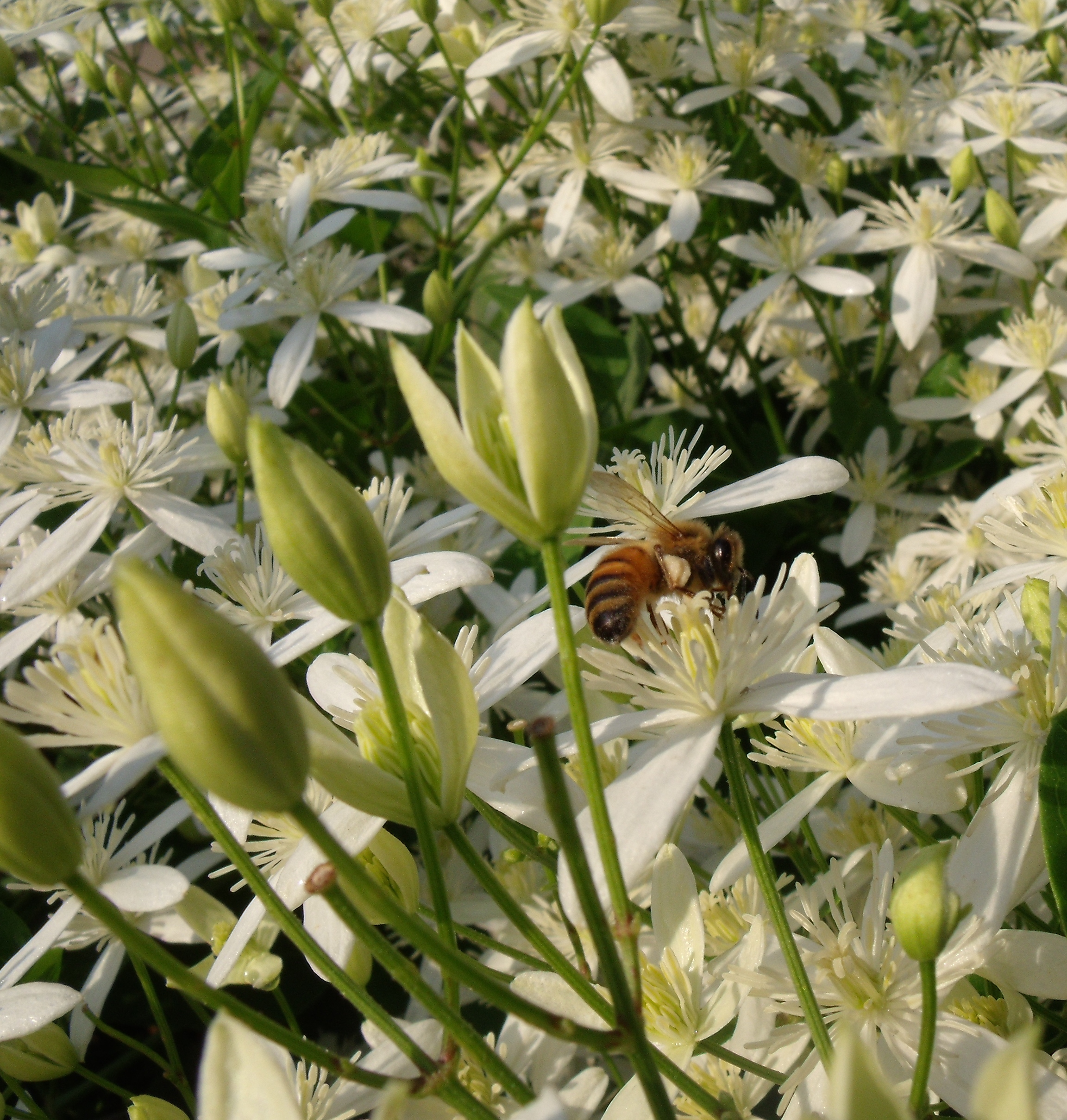 Honey bee on sweet autumn clematis